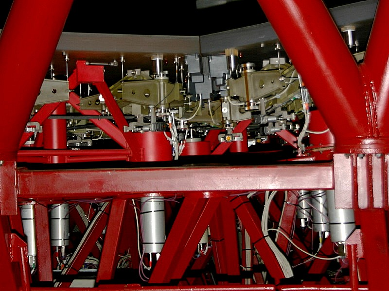 Some of the acutators of the active optics of the Gran Telescopio Canarias. Two of the 36 hexagonal mirrors are visible at the top of the image.